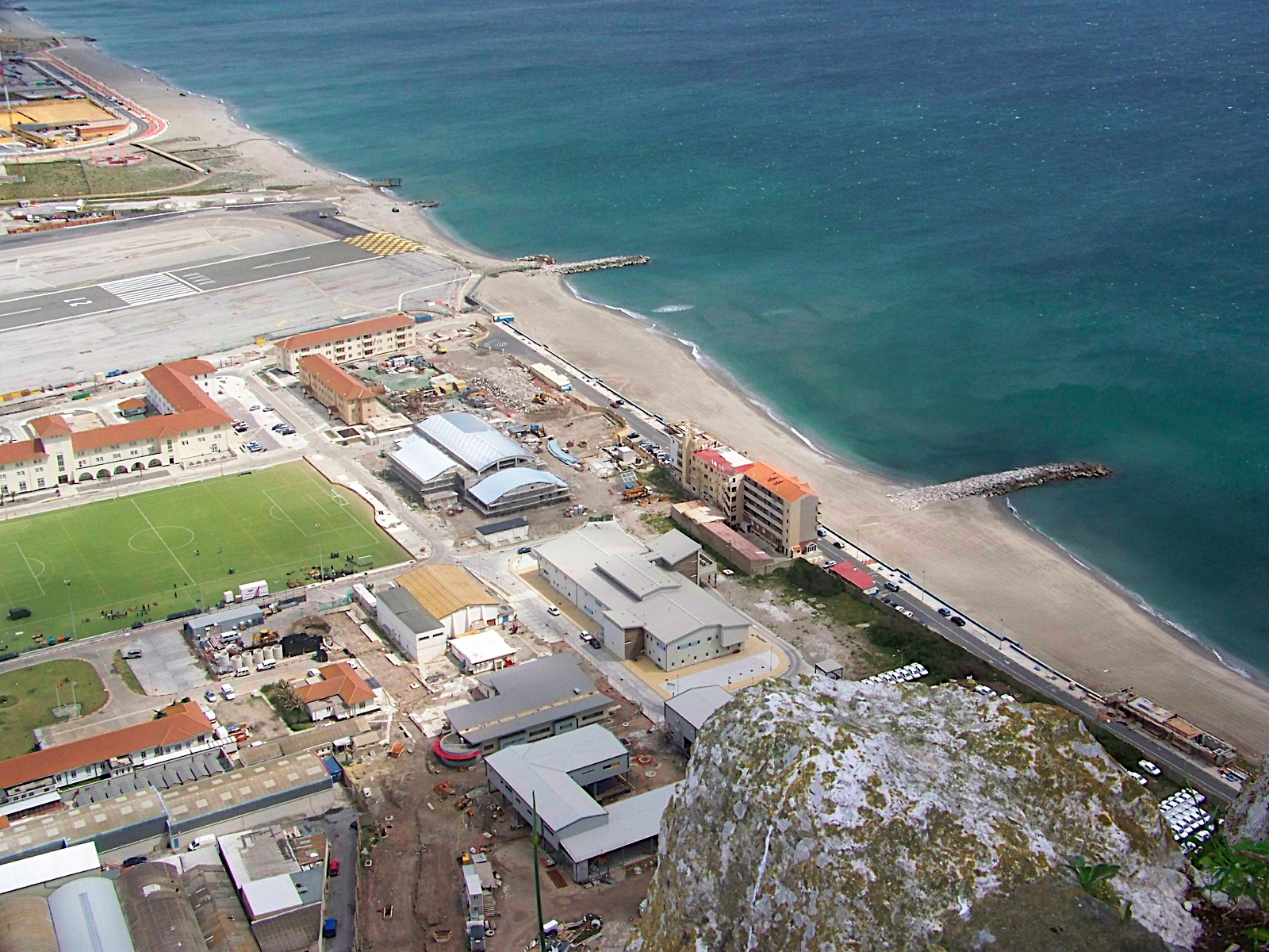 View of Eastern Beach from the Great Siege Tunnel in the Rock of Gibraltar.